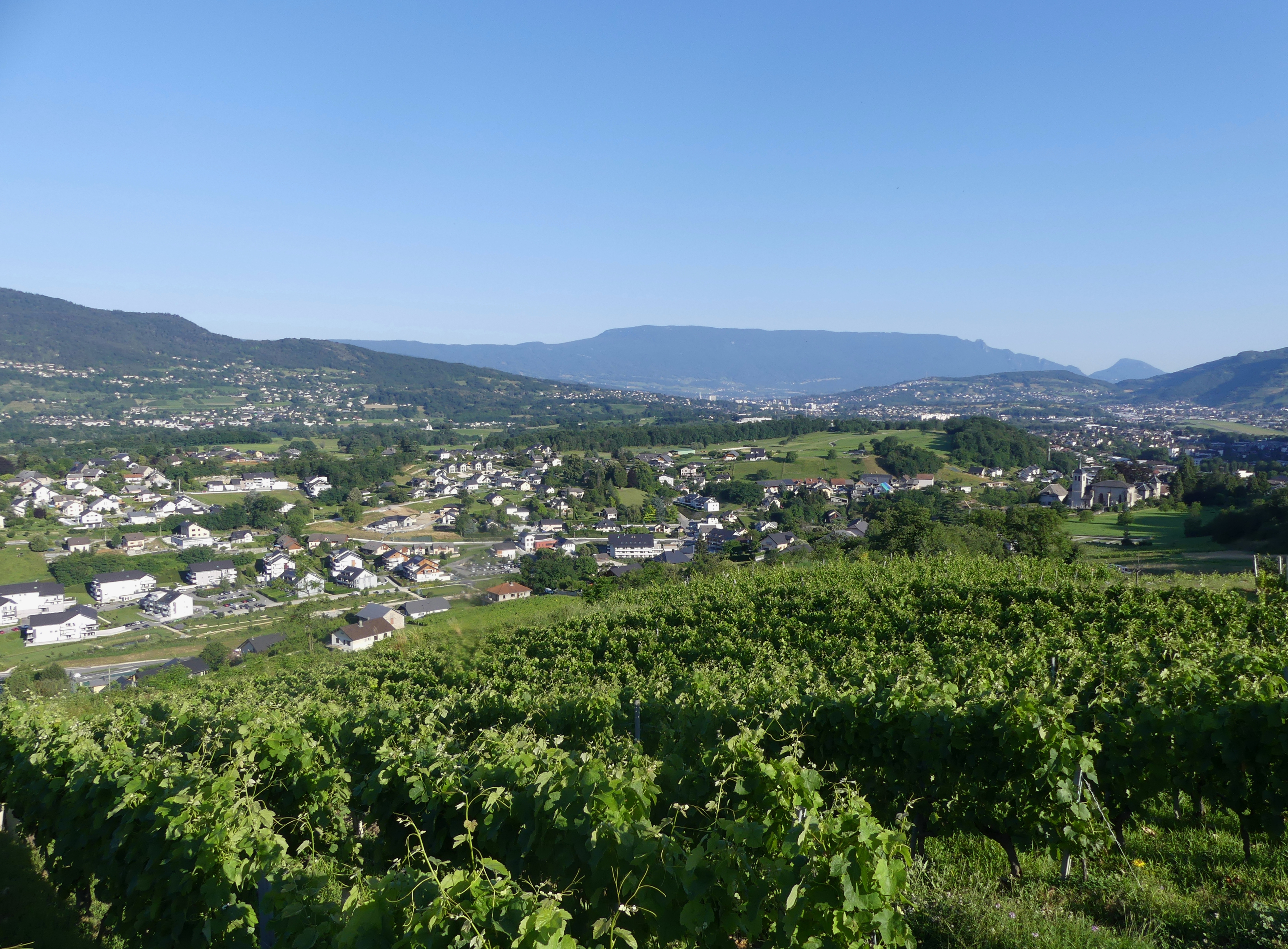 General view, in the early morning from the heights of Chignin vineyards, of Saint-Jeoire-Prieuré at the South of Chambéry, Savoie, France.